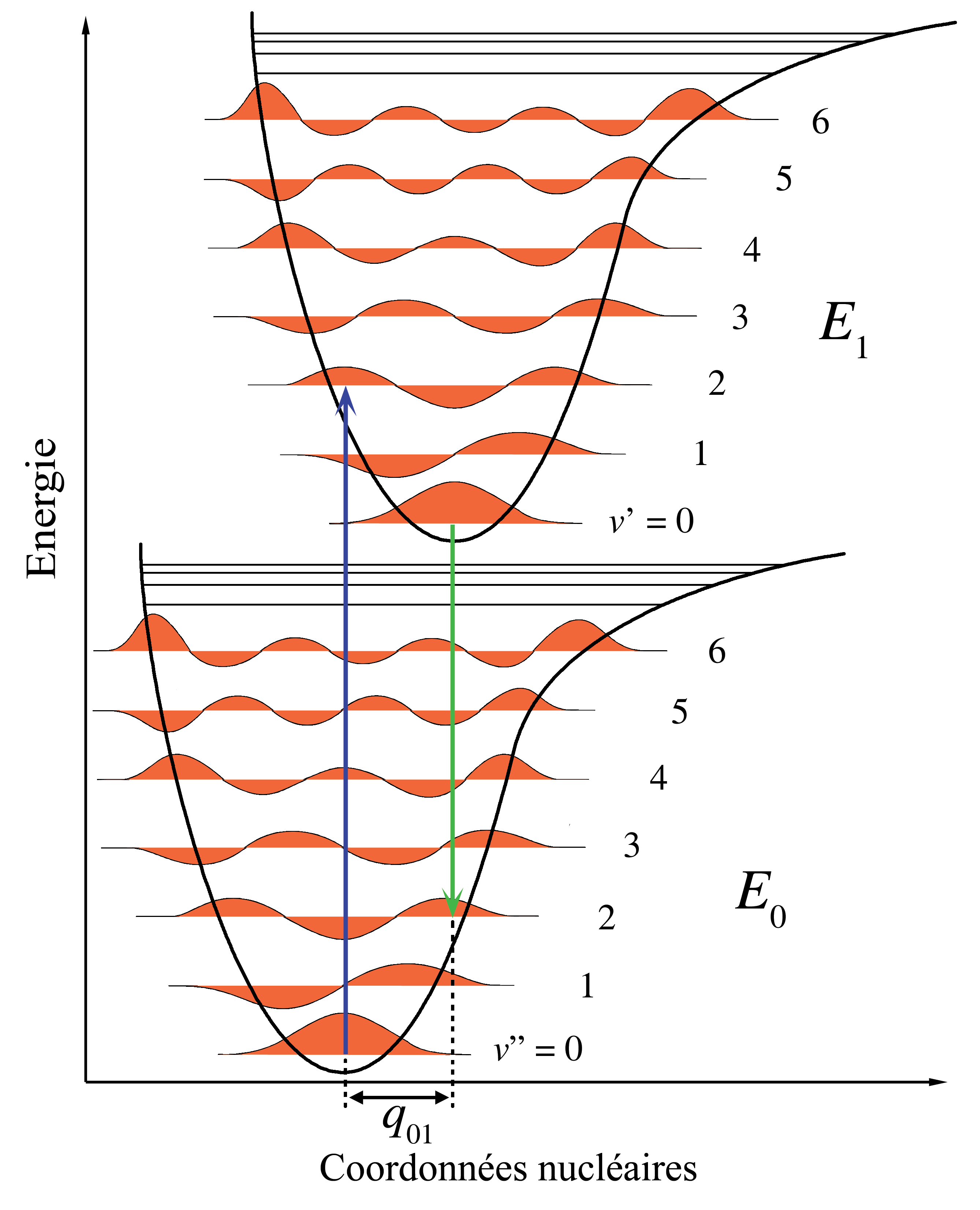 Depiction of Franck Condon principle in absorption and fluorescence. Now in french. Schéma du principe Franck-Condon pour l'absorption et la fluorescence.